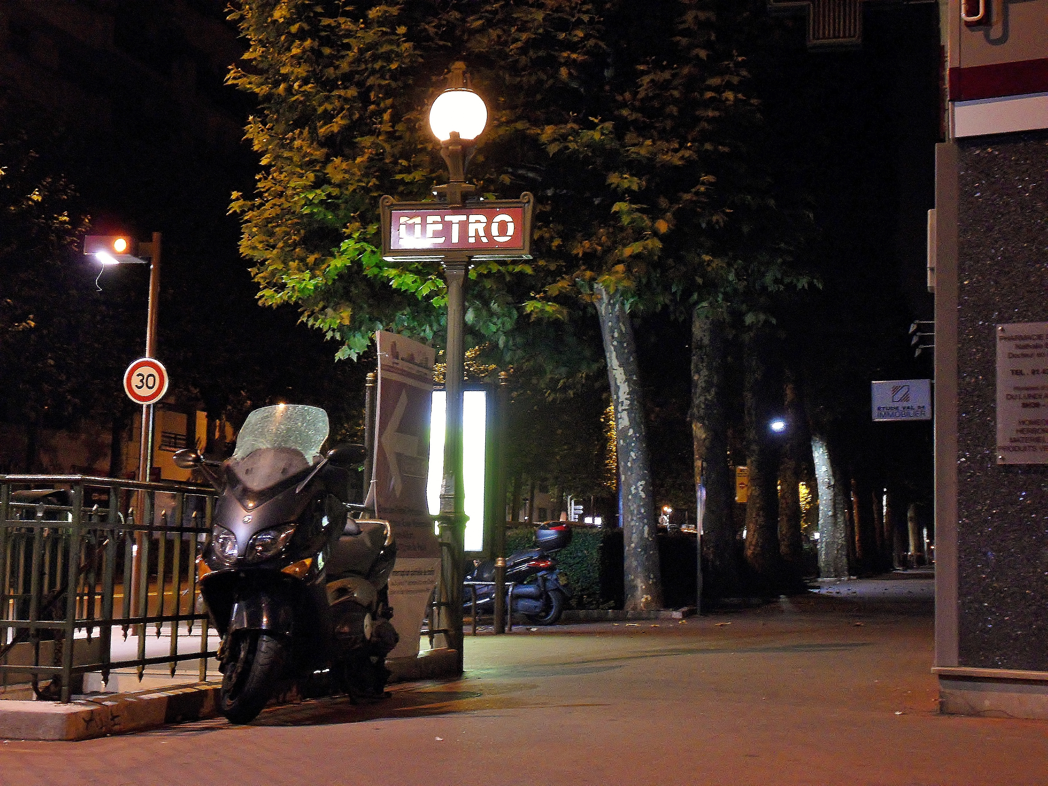 Metro station in Paris: Charenton Ecoles